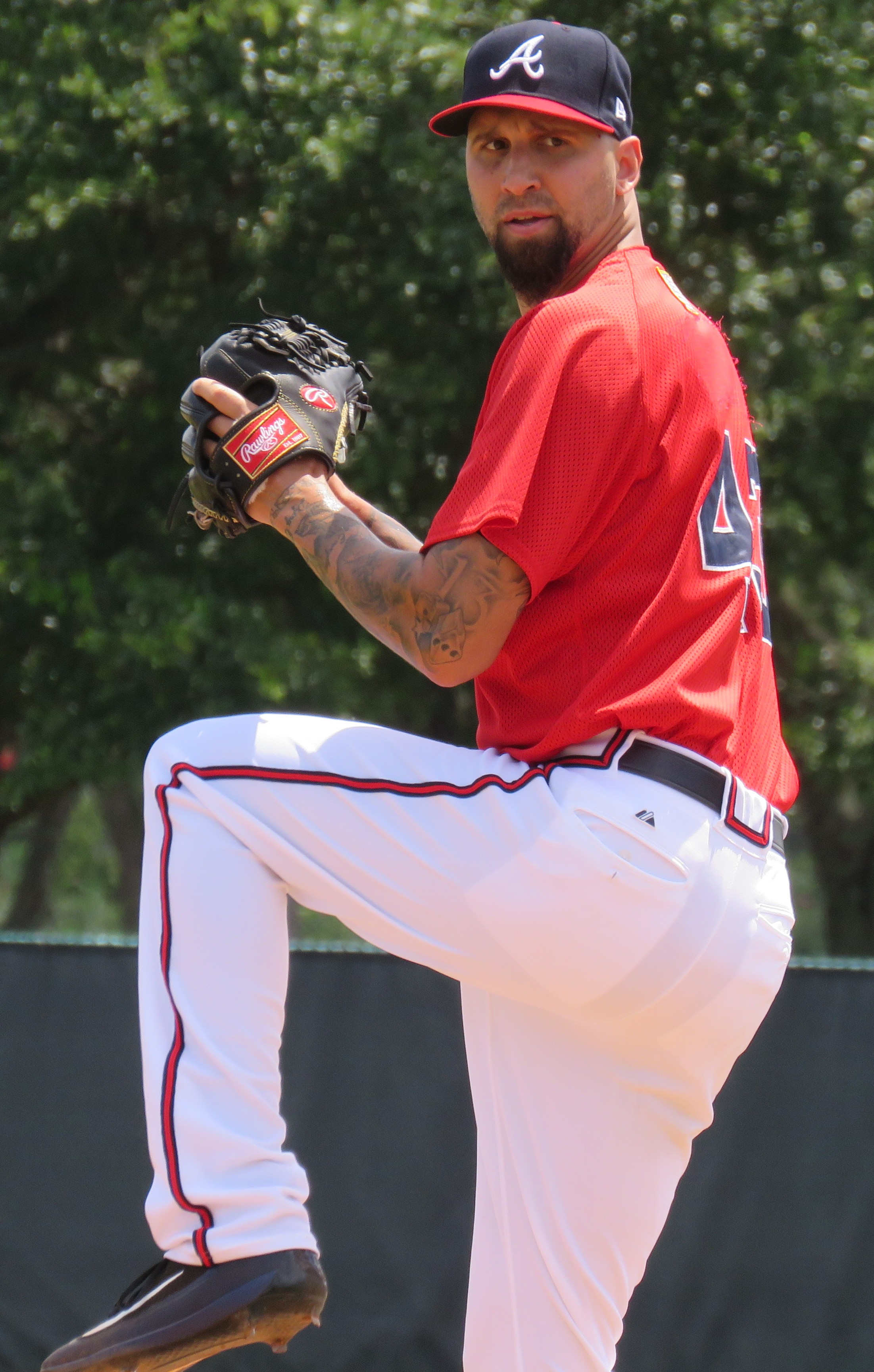 Chaz Roe